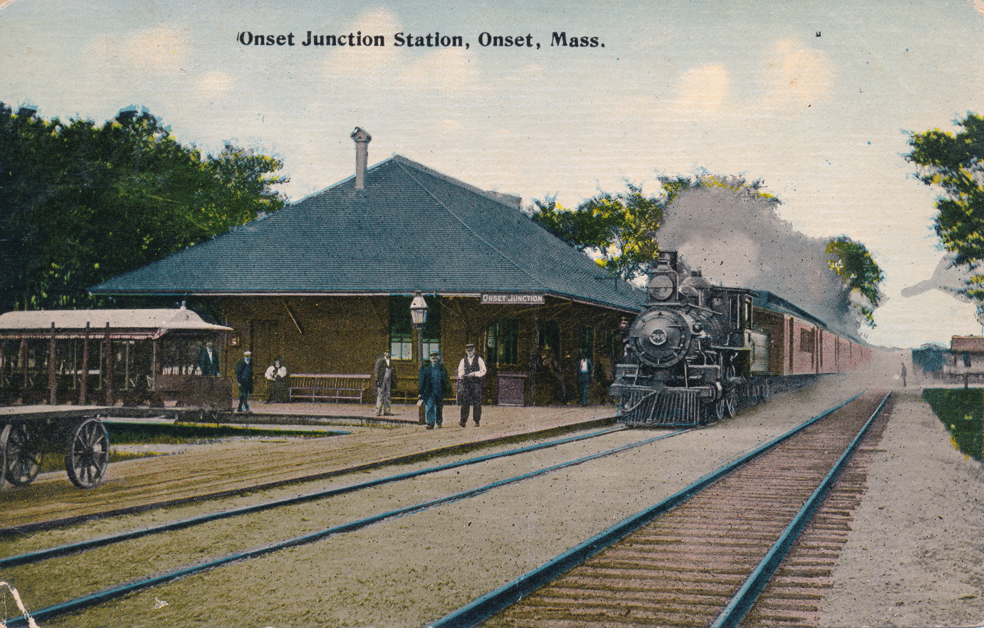 Postcard of the former Onset Junction station in Onset, Massachusetts